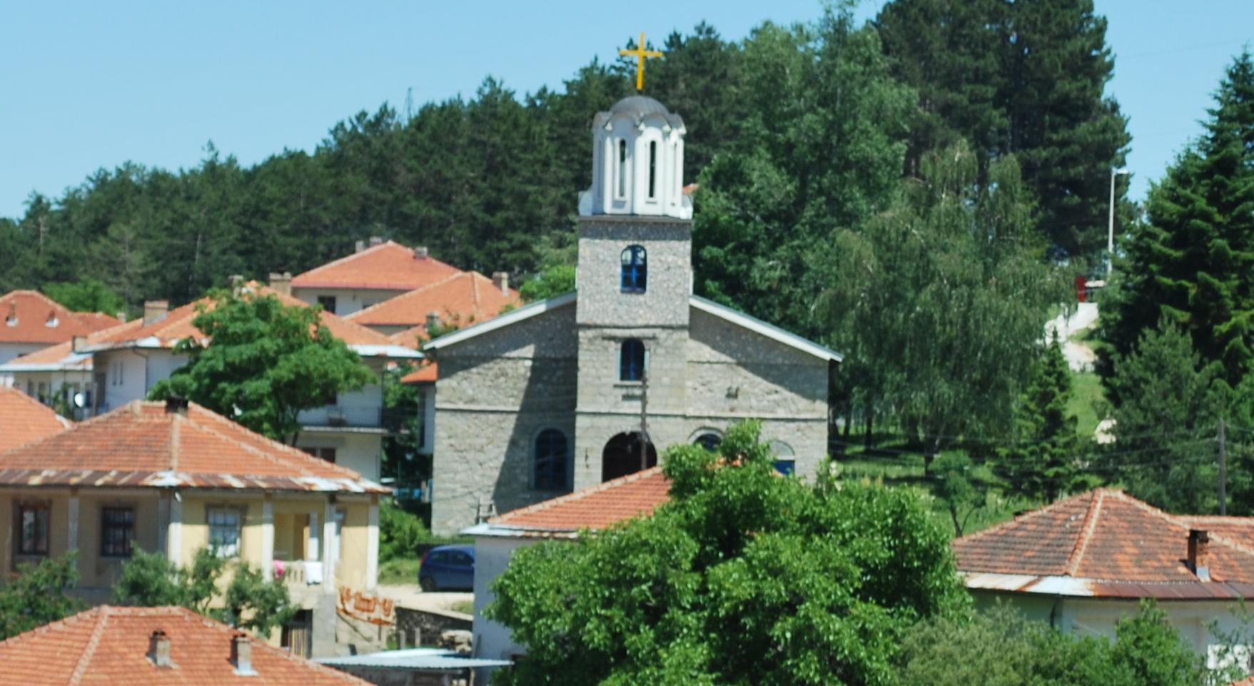 Holy Trinity Church in Kruševo, Macedonia